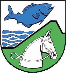 Coat of arms of the municipality Seester in Schleswig-Holstein, Germany.